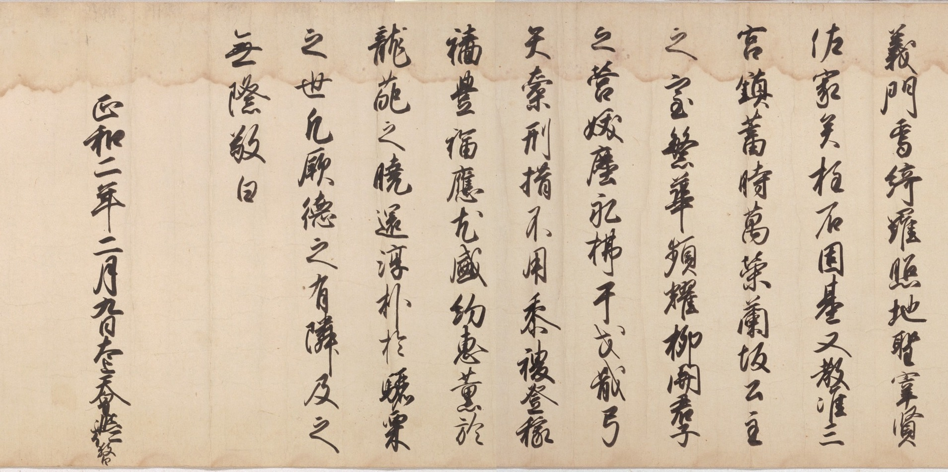 The tail part of Prayer by Emperor Fushimi